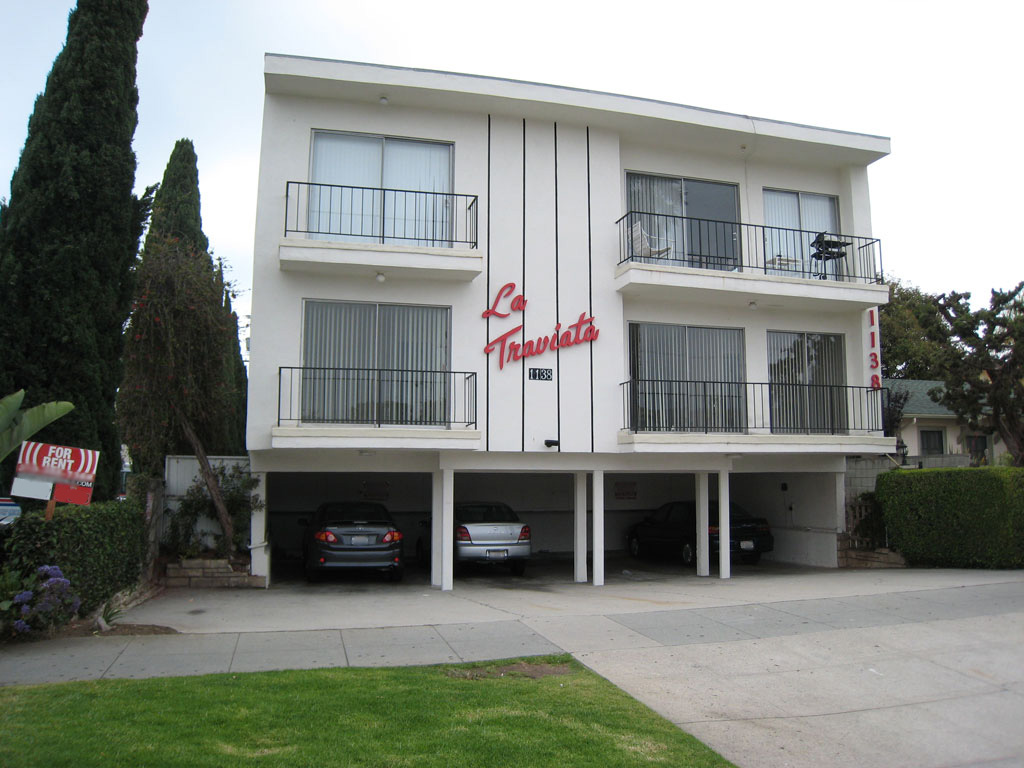 Example of "dingbat" apartment facade.